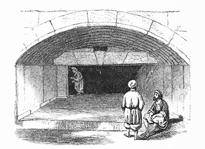 Interior of the Mosque of al Buraq, Jerusalem, as drawn by James Barclay after a very brief visit in 1851–4. The wall at the end is the closed-off passage that once led to Barclay's Gate.